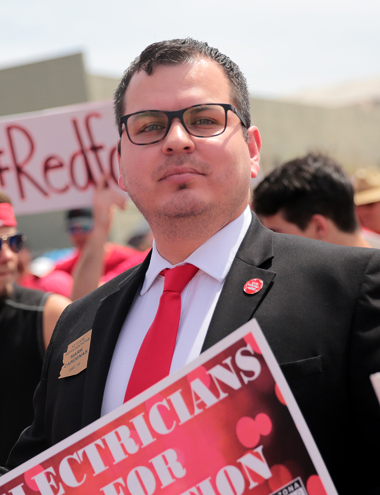 Mark Cardenas at an event in Phoenix, Arizona.